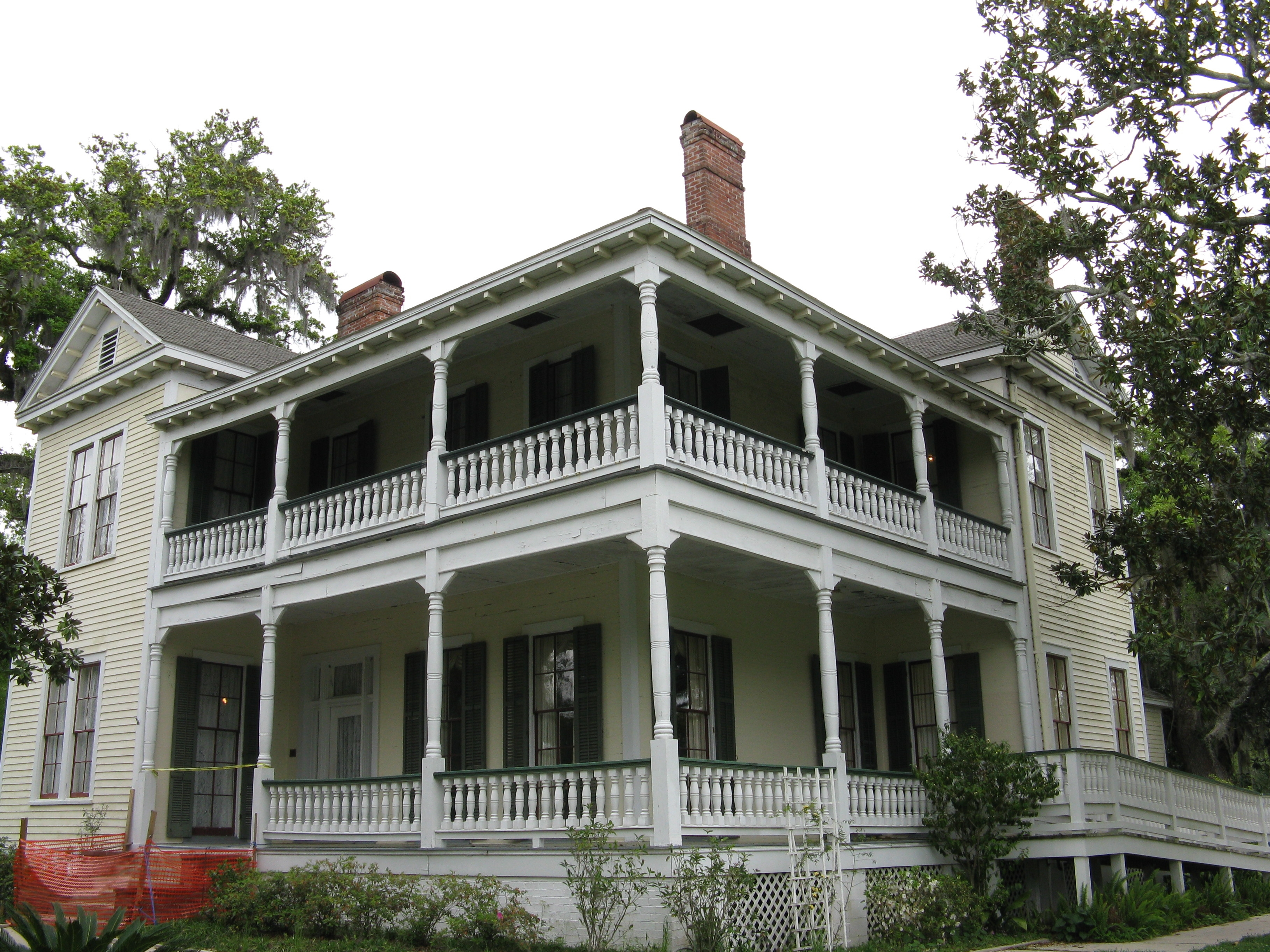 This is Otis House, originally built in the 1880s as the family home for sawmill owner William Theodore Jay. It was later purchased and renovated in the 1930s by Frank Otis, serving as his summer home until his death in 1962. Mr. Otis left the property to the State of Louisiana to be developed into a recreational site for visitors. The house was placed on the National Register of Historic Places in 1999.